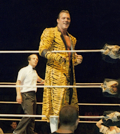 Brutus Beefcake. I took this photo myself at the Sydney Entertainment Center some time during the mid to lat 80s. This is entirely my own work